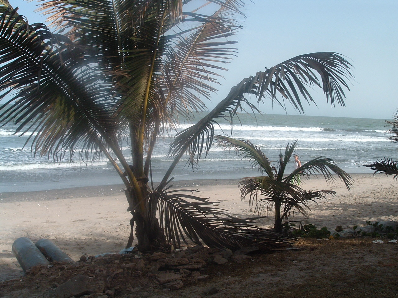 Fajara beach from Leybato Bar